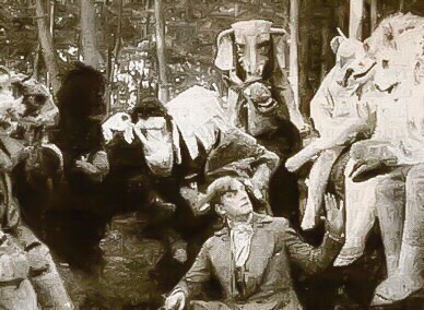 Film still of John (Raymond Hitchcock) surrounded by a tiger, gorilla, elephant, lion, and "wildlife allies" of the Ringtailed Rhinoceros; cropped illustration from article by William M. Henderson (1915), "How The Ringtailed Rhino Won Over Raymond Hitchcock", The Movie Pictorial (New York, N.Y.), October 1, 1914, p. 21.